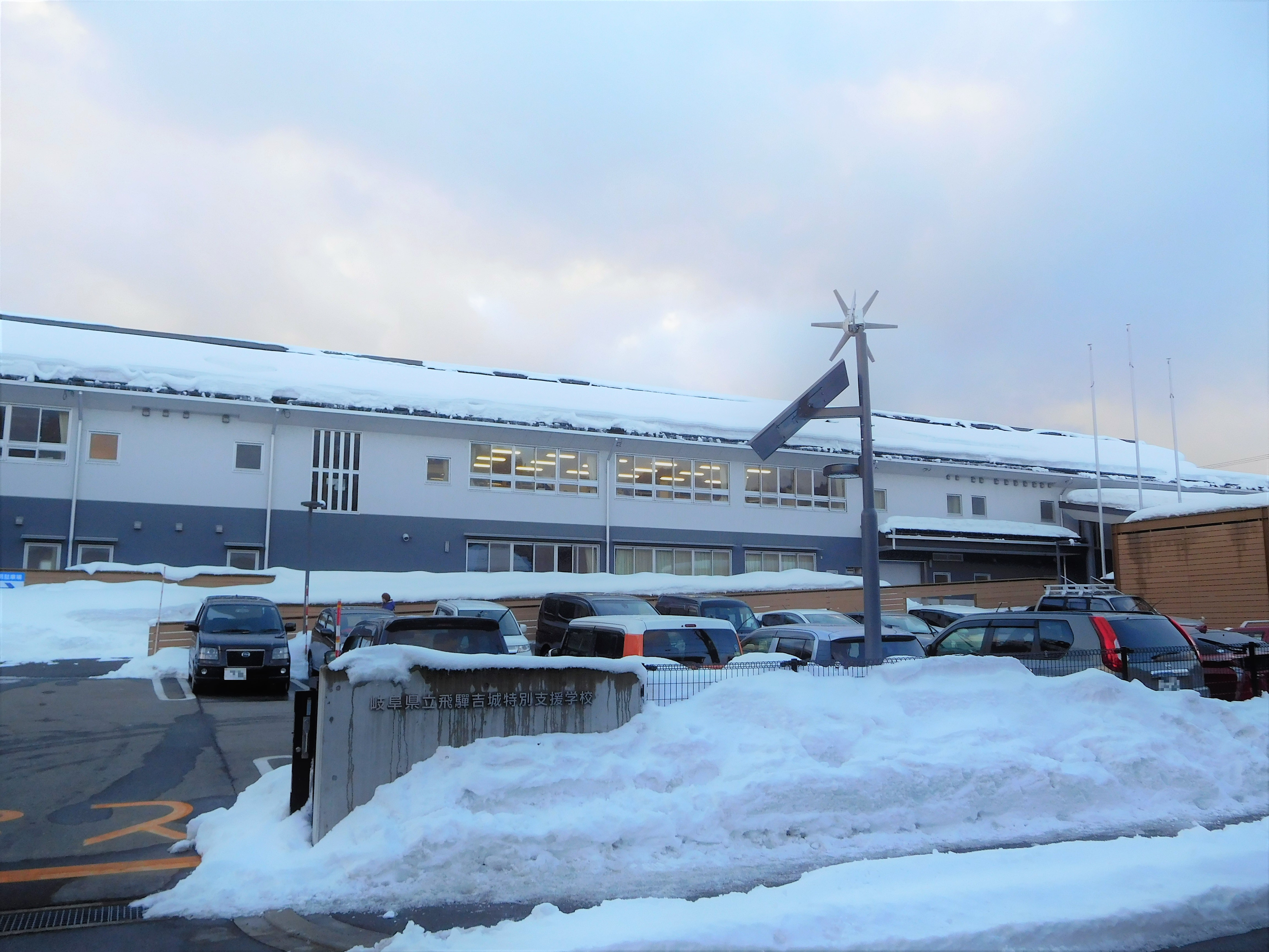 This is the Gifu prefectural Hida-Yoshiki Special School in Hida, Gifu, Japan.